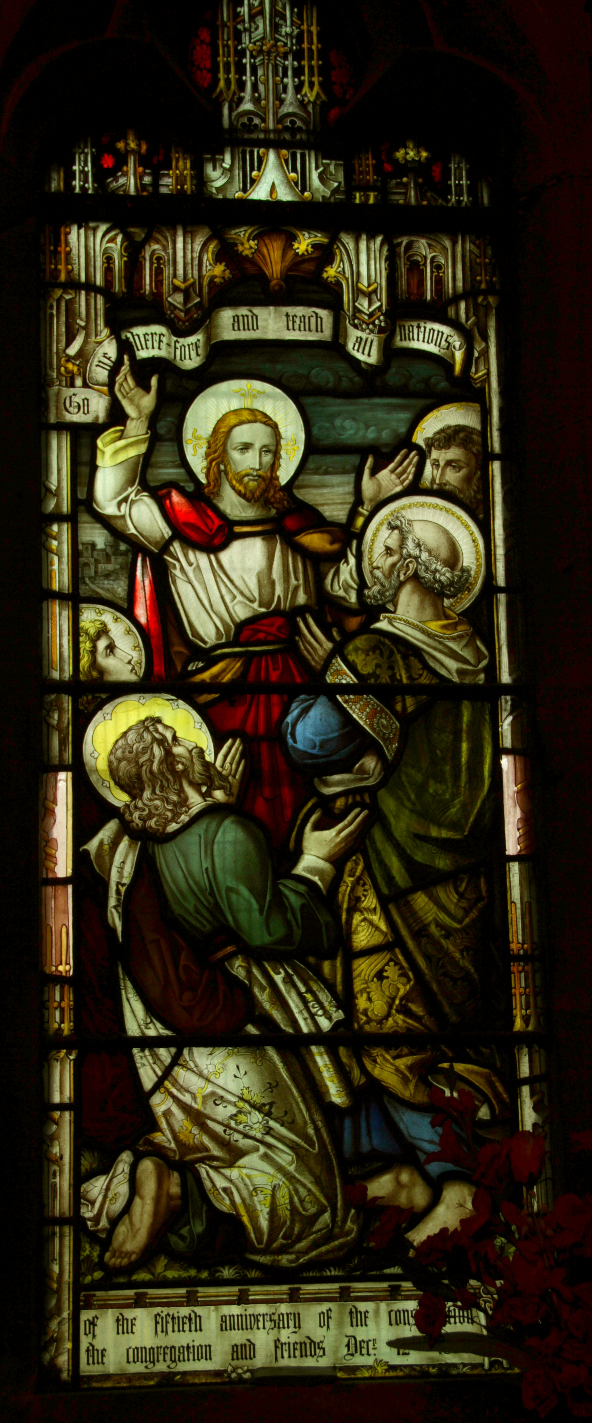 Stained glass in St Matthew's Church, Carr Bottom Road, Bankfoot, Bradford, West Yorkshire, England. The building was designed by Mallinson and Healey, and completed in 1849. It was consecrated on 12 December that year. The dedication of this window says: "To the Glory of God and in commemoration of the fiftieth anniversary of the consecration of the church. This window was inserted by the congregation and friends Dec. 12th 1899." At the consecration, the church was dedicated to St Matthew, so the quotations on the window are: "My house shall be called the house of prayer(Matthew 21:13). Go ye therefore and teach all nations (Matthew 28:19)."